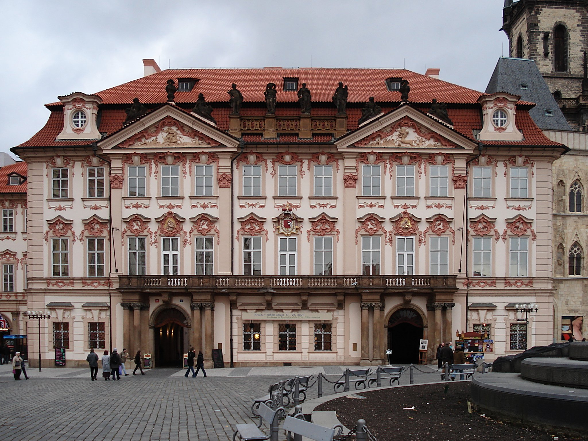 Palace Golz-Kinsky on Old town square, Praha, with perspective correction